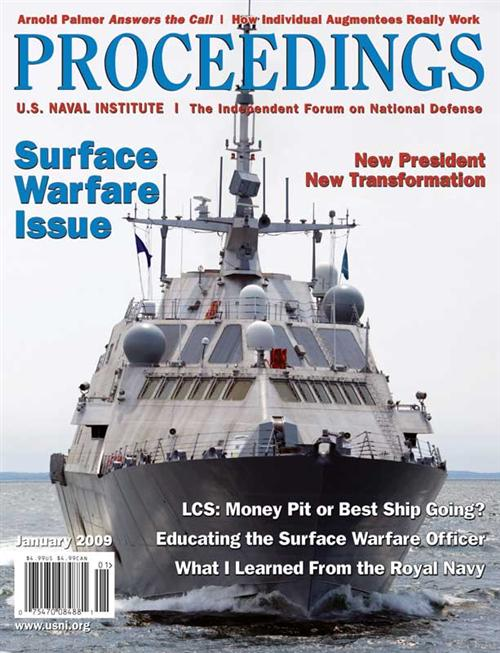 Cover of January 2009 edition of USNI Proceedings magazine